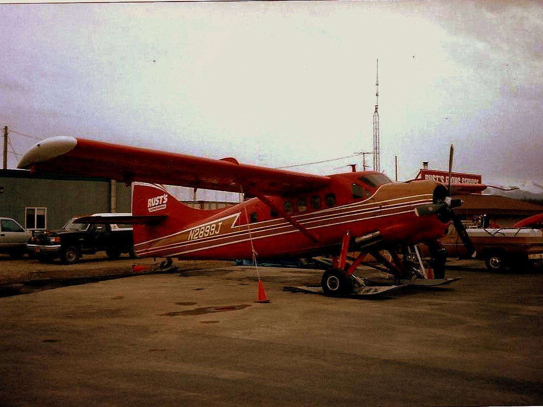 SCANNED FROM A PHOTO HENCE TO REDUCED QUALITY